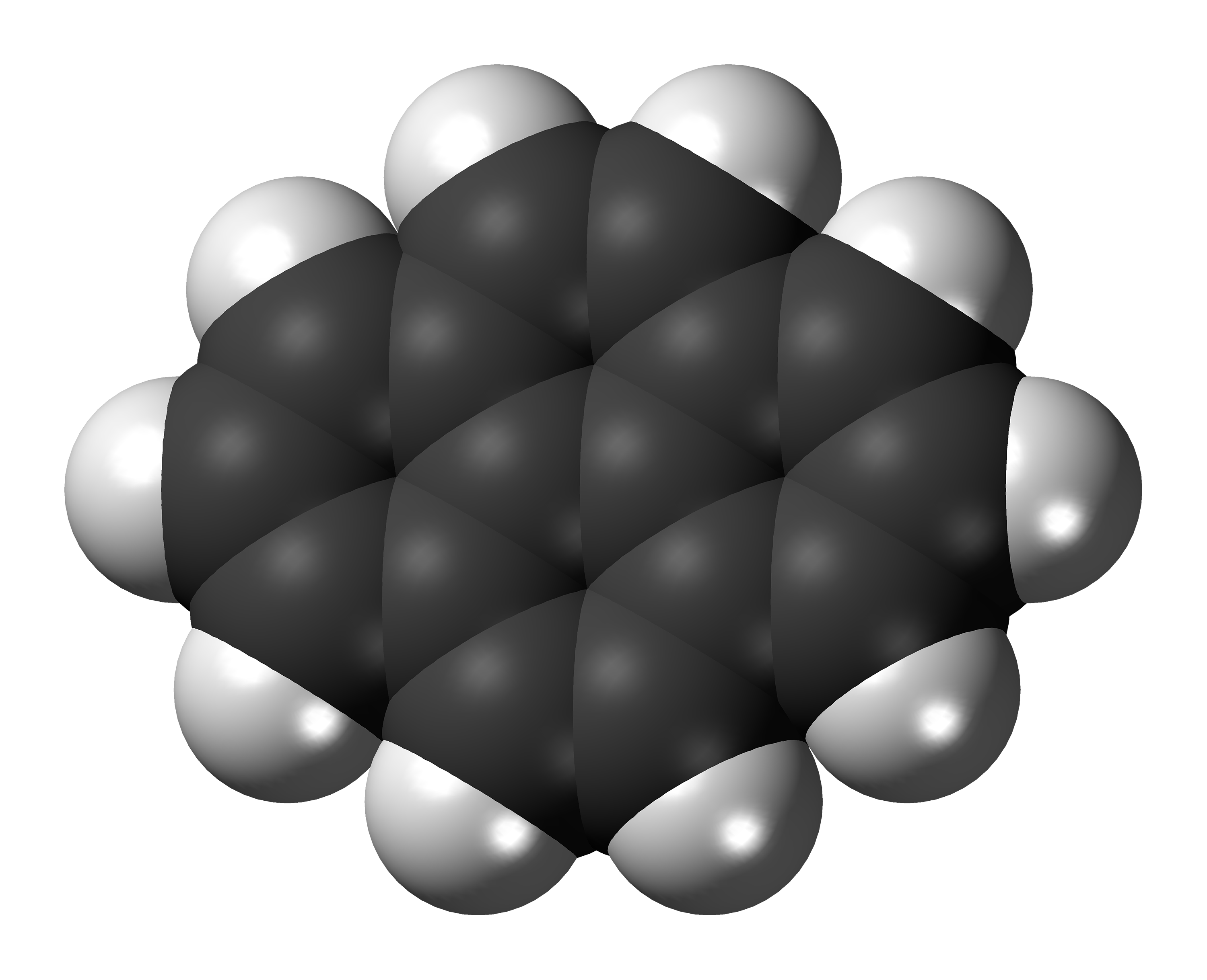 Space-filling model of the pyrene molecule, a polycyclic aromatic hydrocarbon. Color code: Carbon, C: black Hydrogen, H: white